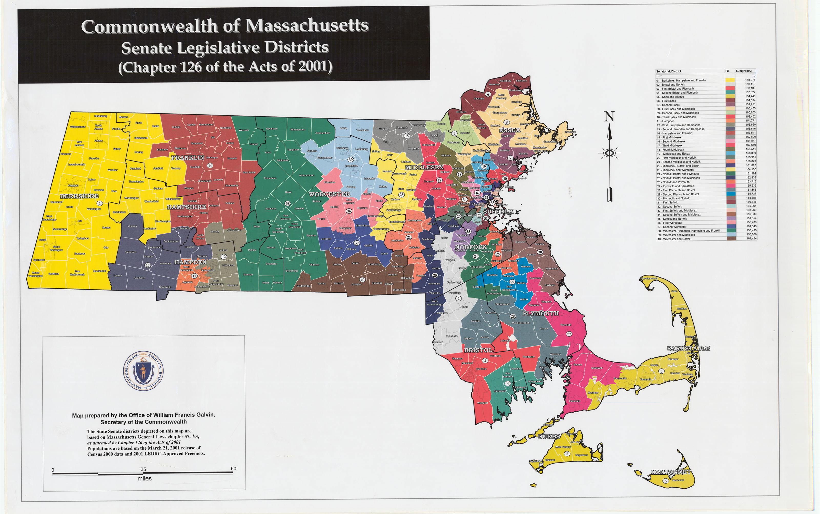 Map of districts of the Massachusetts state senate apportioned in 2001. The map includes Census 2000 population information. State senate districts depicted:[1] 1st Bristol and Plymouth district 1st Essex district 1st Essex and Middlesex district 1st Hampden and Hampshire district 1st Middlesex district 1st Middlesex and Norfolk district 1st Plymouth and Bristol district 1st Suffolk district 1st Suffolk and Middlesex district 1st Worcester district 2nd Bristol and Plymouth district 2nd Essex district 2nd Essex and Middlesex district 2nd Hampden and Hampshire district 2nd Middlesex district 2nd Middlesex and Norfolk district 2nd Plymouth and Bristol district 2nd Suffolk district 2nd Suffolk and Middlesex district 2nd Worcester district 3rd Essex and Middlesex district 3rd Middlesex district 4th Middlesex district Berkshire, Hampshire and Franklin district Bristol and Norfolk district Cape and Islands district Hampden district Hampshire and Franklin district Middlesex and Essex district Middlesex and Worcester district Middlesex, Suffolk and Essex district Norfolk and Plymouth district Norfolk, Bristol, and Middlesex district Norfolk, Bristol, and Plymouth district Plymouth and Barnstable district Plymouth and Norfolk district Suffolk and Norfolk district Worcester and Middlesex district Worcester and Norfolk district Worcester, Hampden, Hampshire and Franklin district